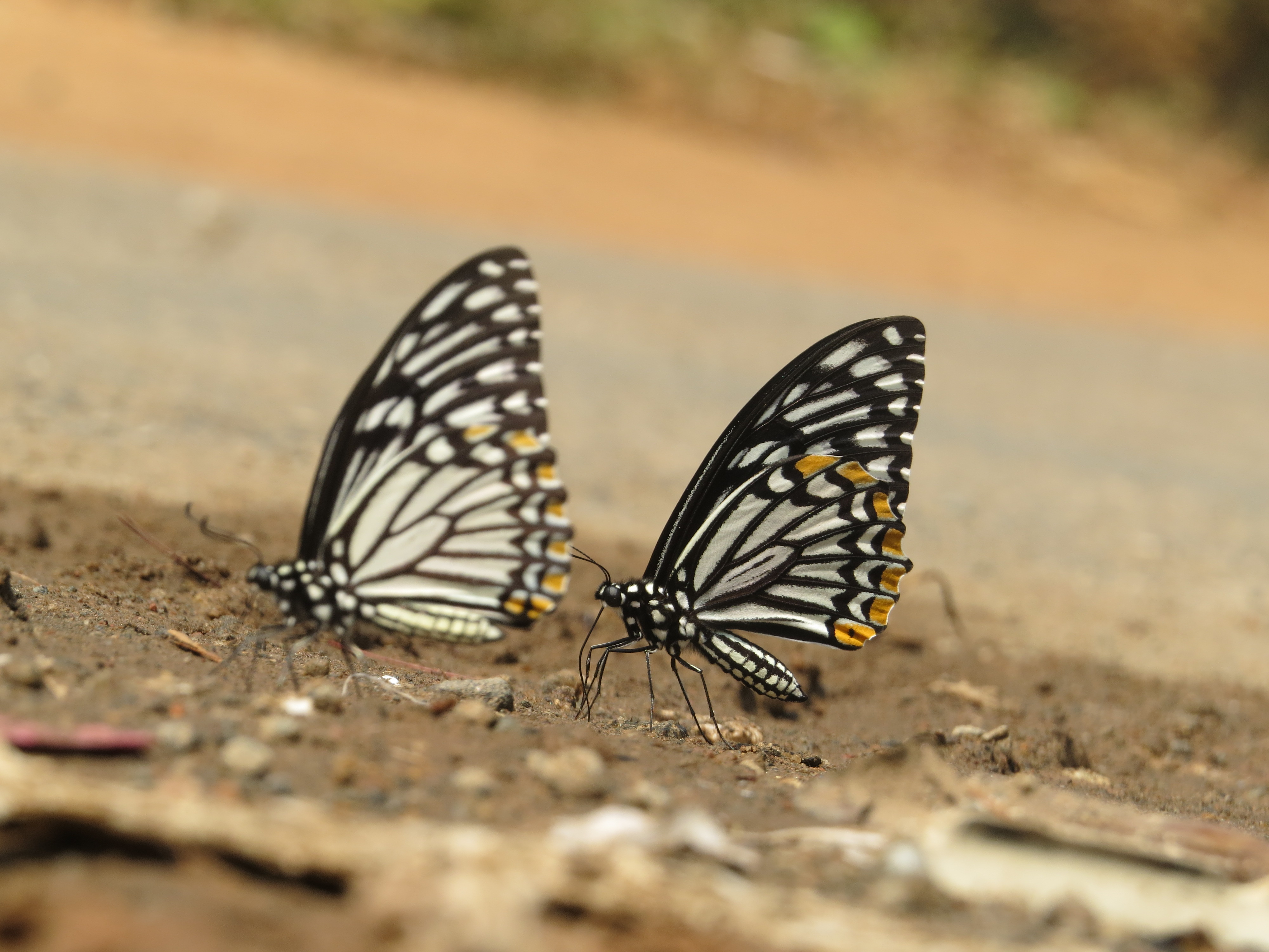 Photos taken during the 2016 Bird Survey at Kottiyoor Wildlife Sanctuary